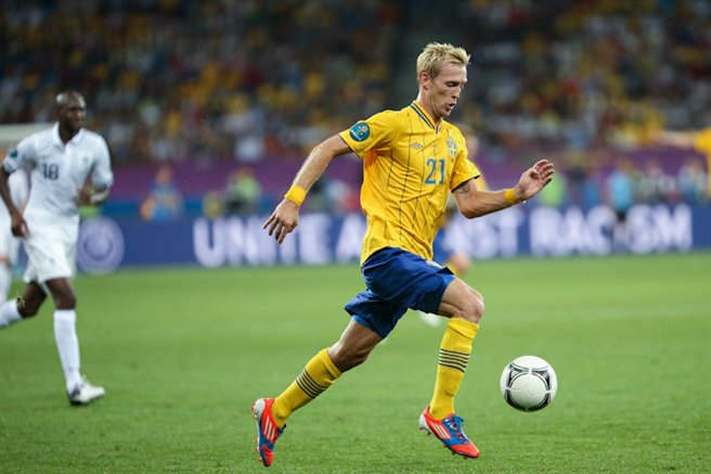 Christian Wilhelmsson at the Euro 2012 match against France